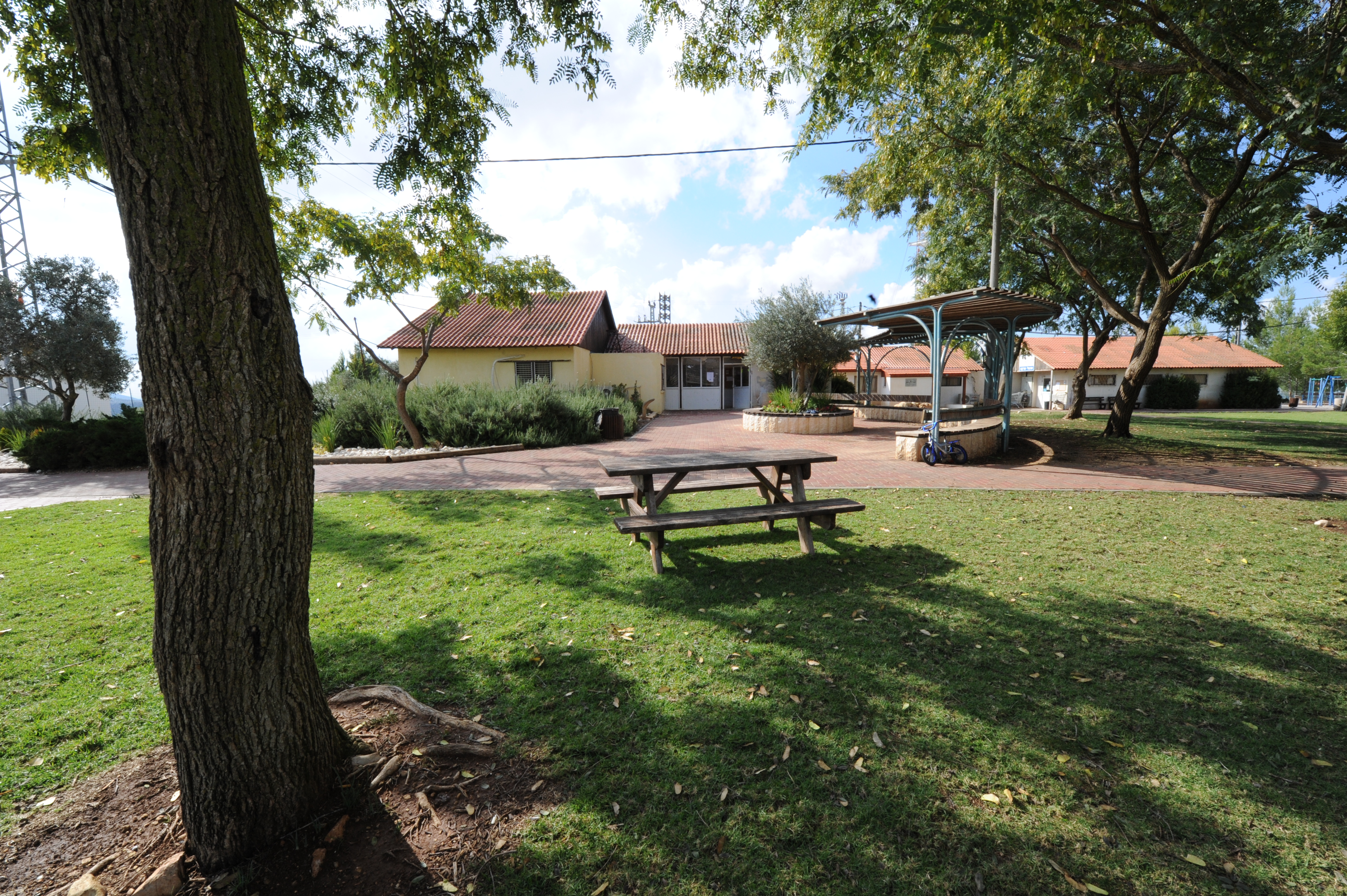 The central lawn of Ateret settlement